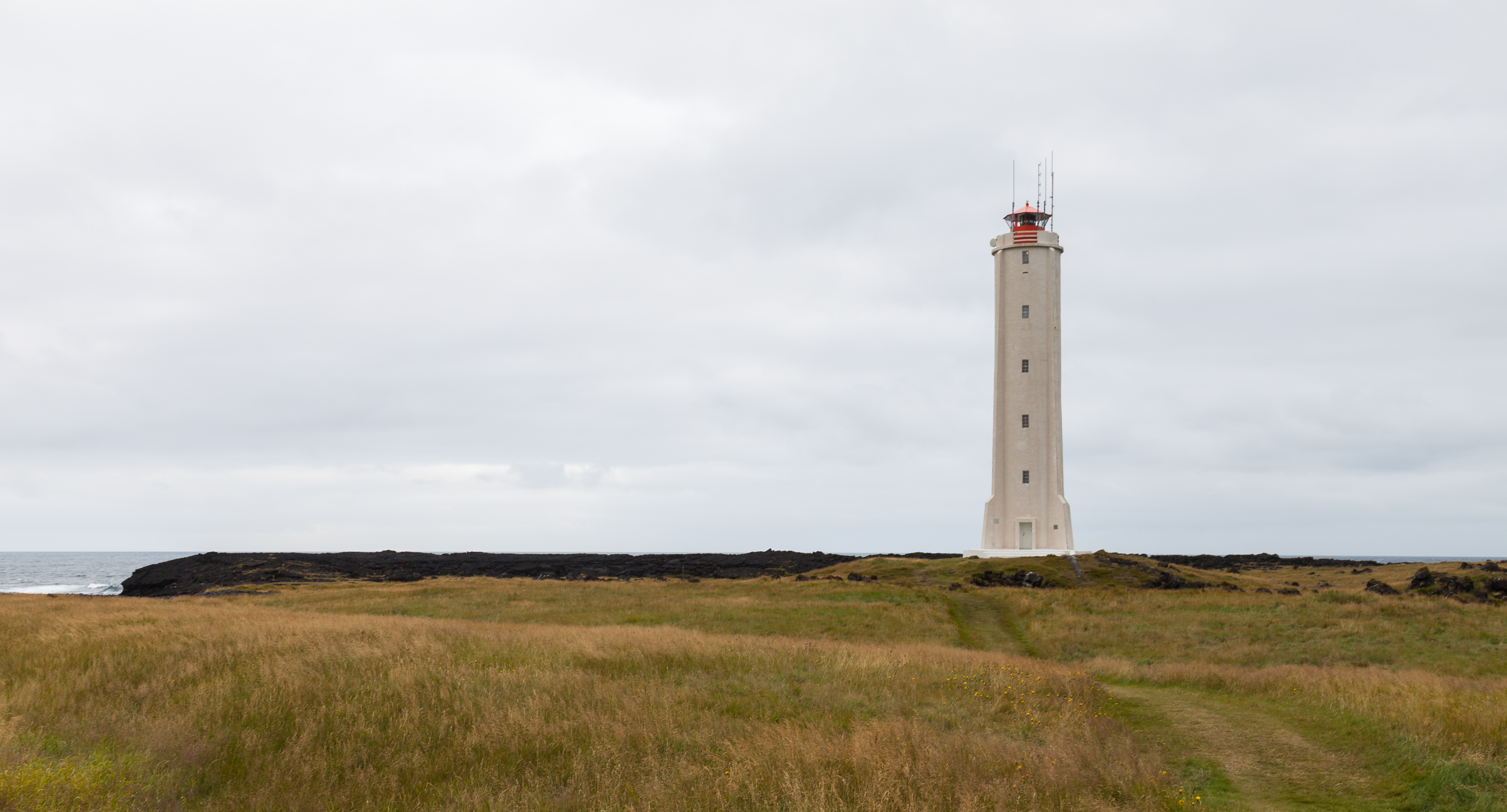 Malarrif lighthouse, Vesturland, Iceland